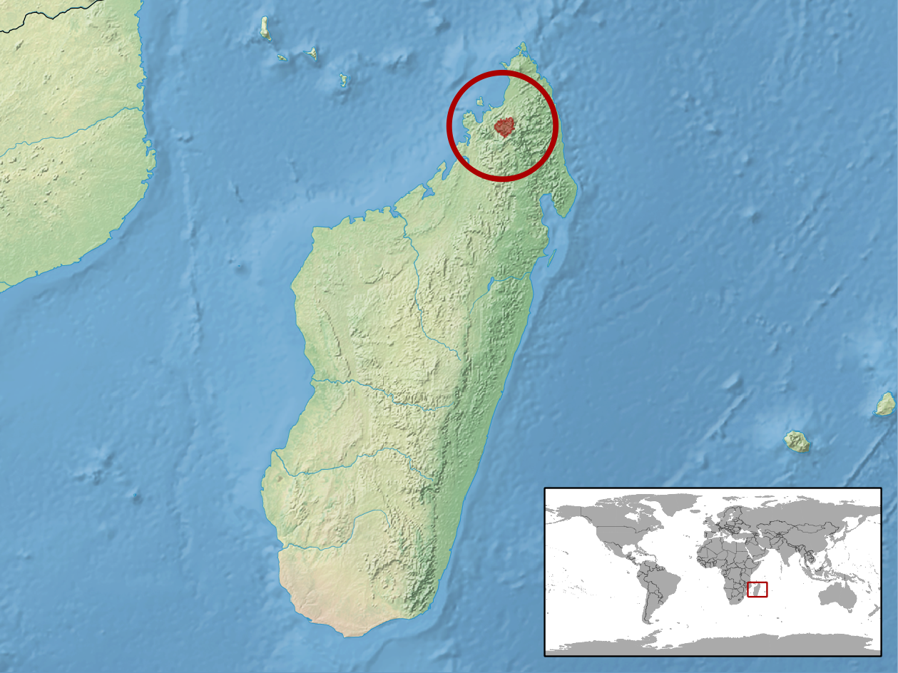 geographic distribution of Calumma tsaratananense (Native: Madagascar)